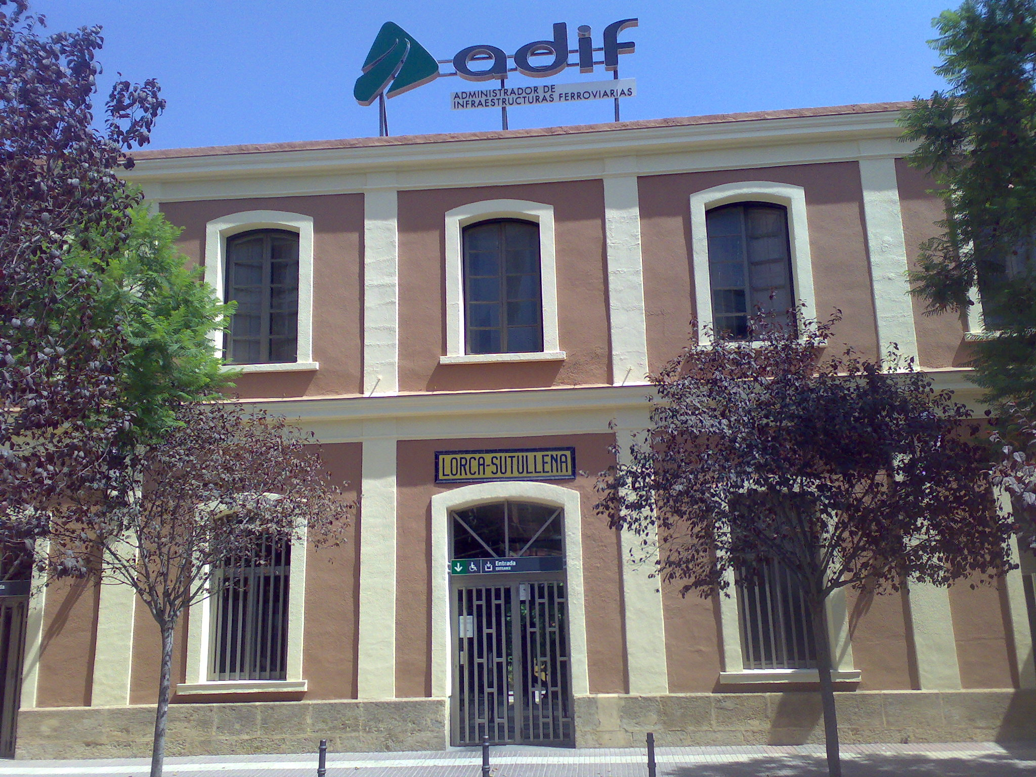 Lorca Sutullena train station.